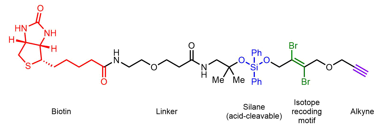 Chemical probe used in isotope-targeted glycoproteomics